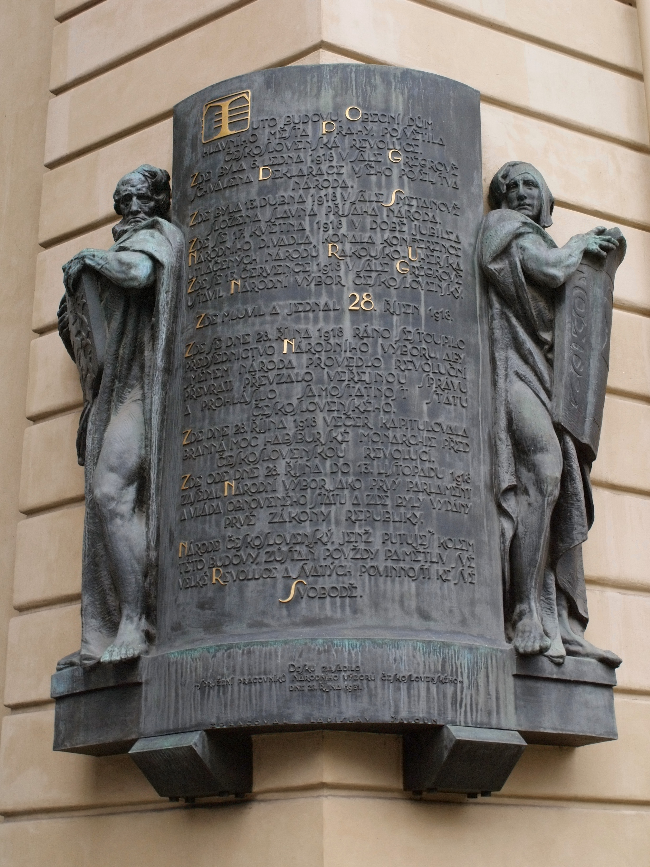 Plaque and sculptures The Degradation of the People and The Resurrection of the People by Ladislav Šaloun remembering installation of Czechoslovakia in 1918 (located on the Municipal House in Prague, inaugurated 1931-OCT-28)